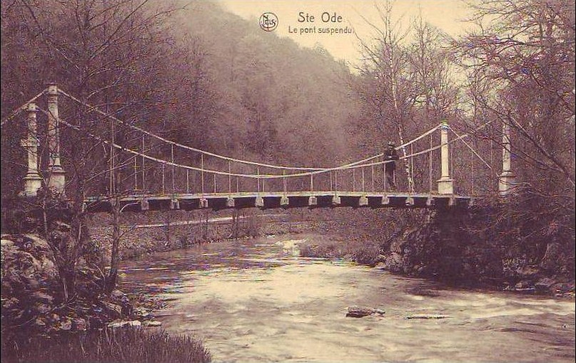 Lavacherie sur Ourthe; Luxemburg Province, (Belgium). Bridge on the river Ourthe. First suspended bridge built in Belgium. July 1841. Built on the request of the Orban family. Picture early 20th century.